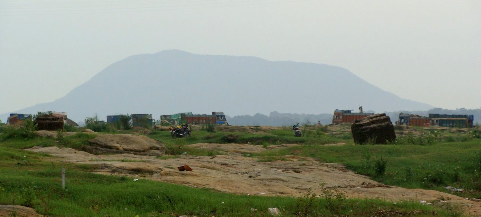 Biharinath Hill